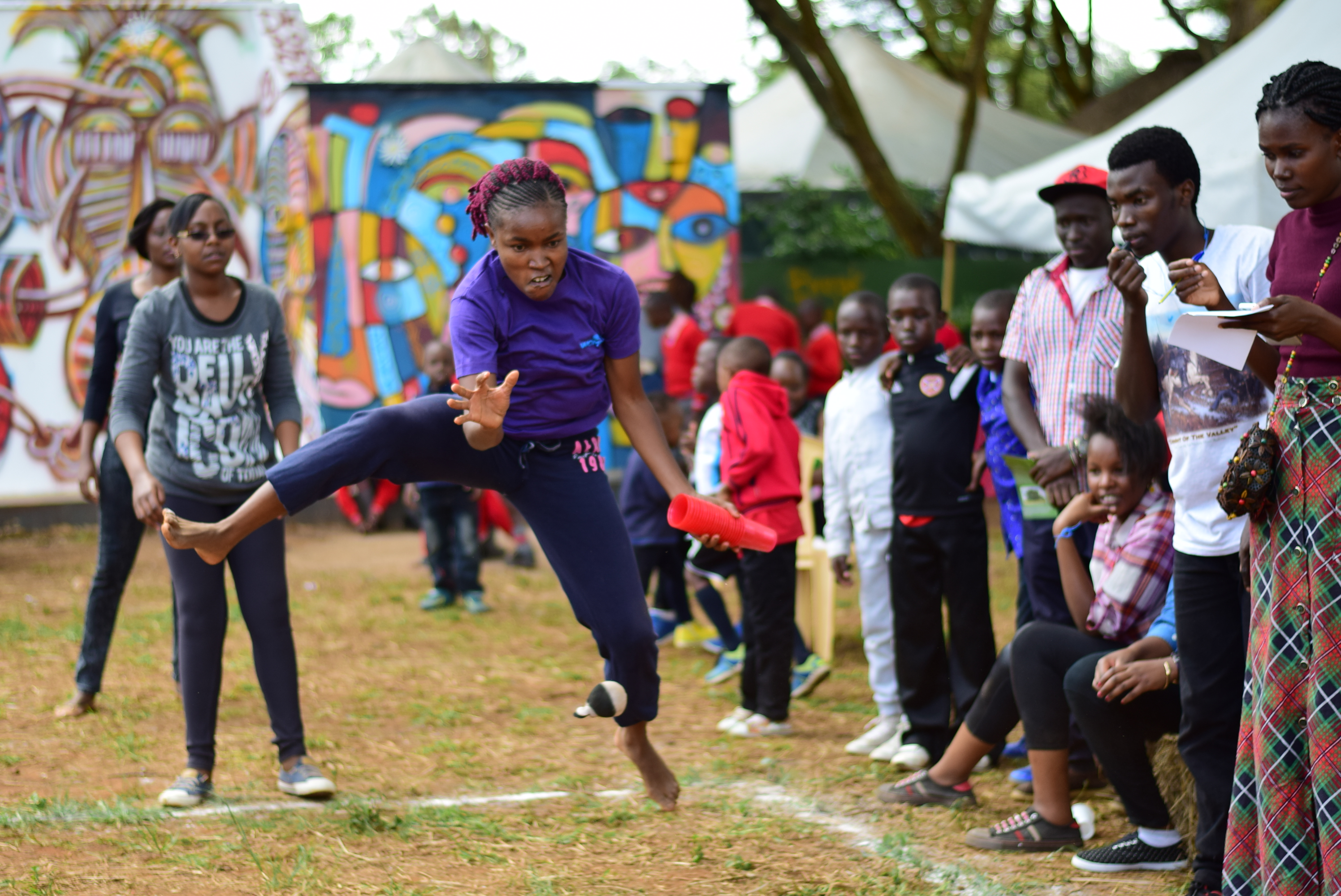 This is an image with the theme "Play" from: Kenya